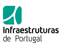 Logo of the portuguese enterprise Infraestruturas de Portugal